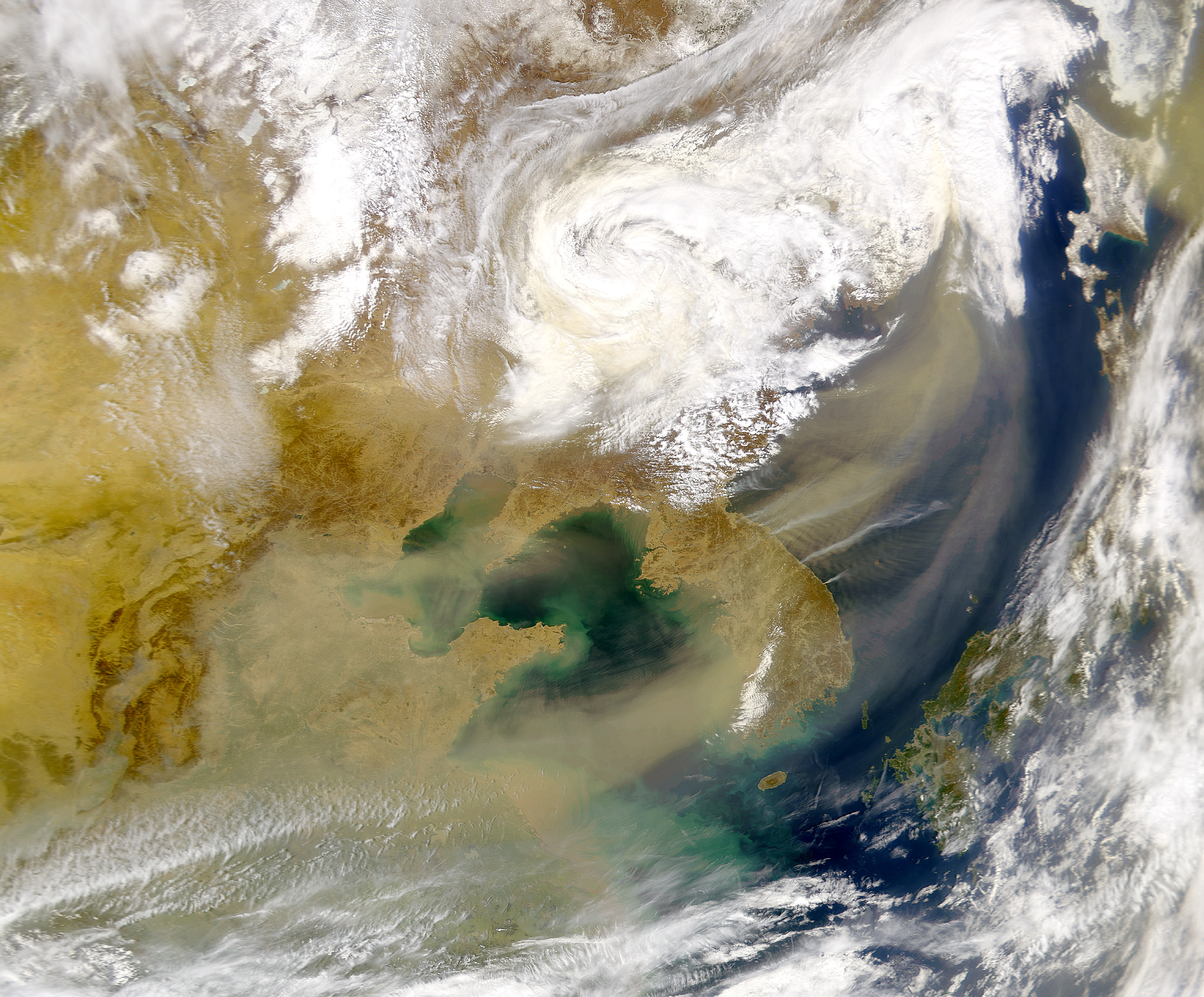 Satellite image of East Asia. Dust storm hits China, Korea Japan.